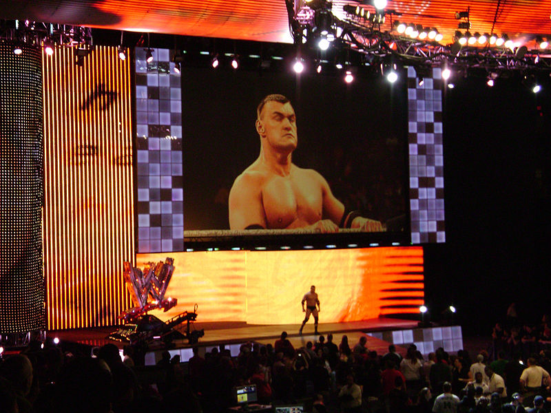 Vladimir Kozlov Entering The Arena